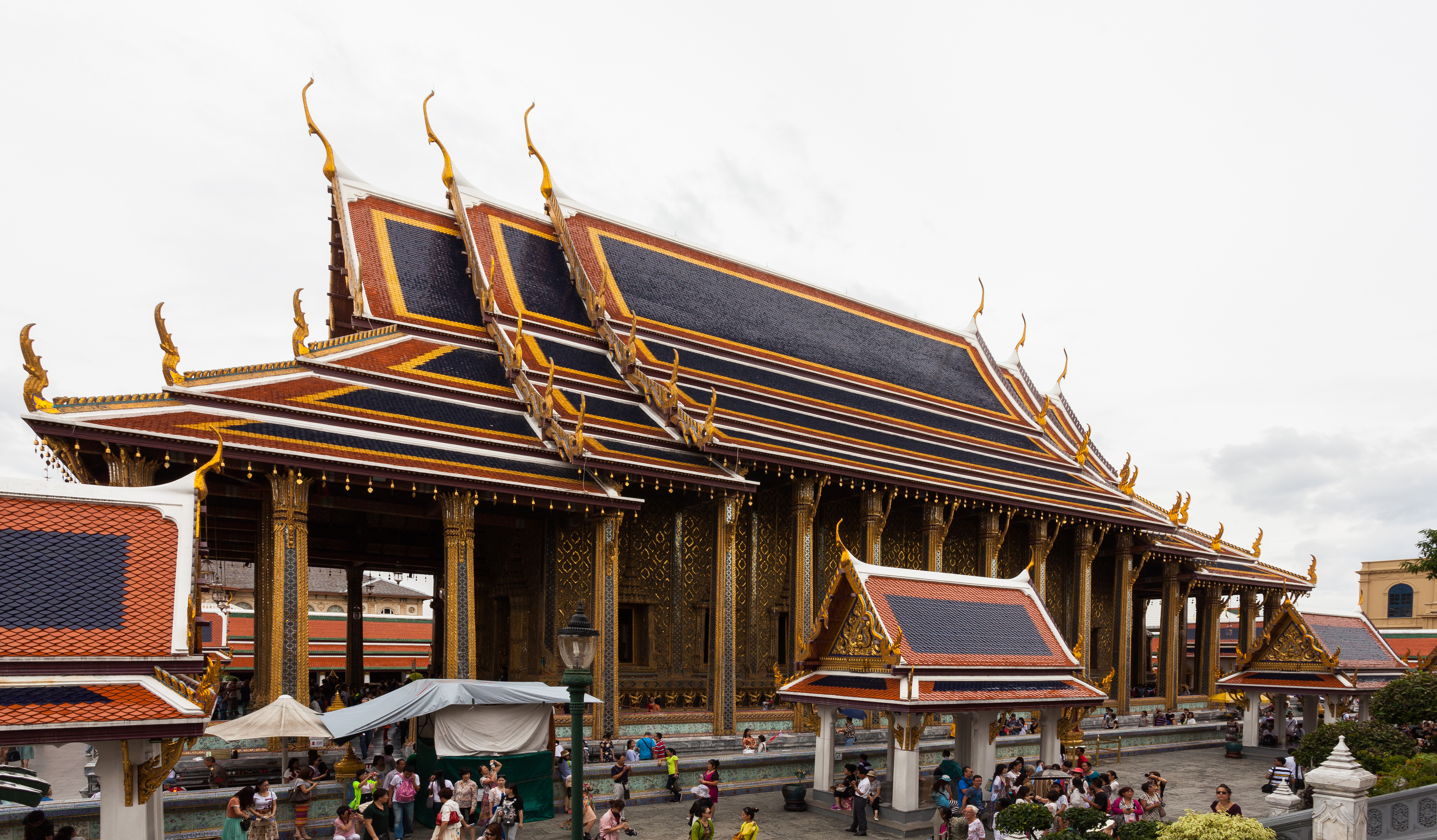 Grand Palace, Bangkok, Thailand